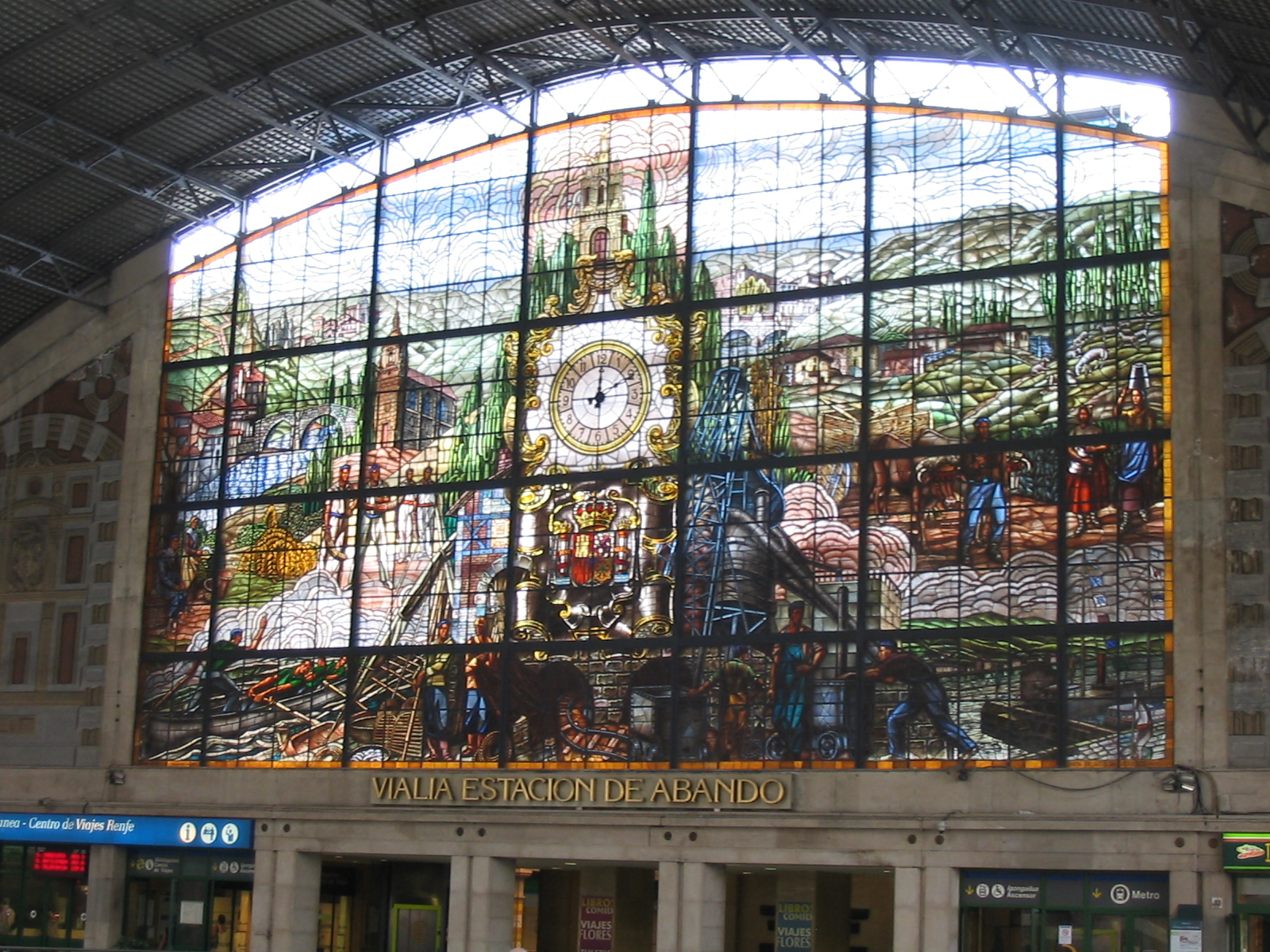 Window painting at Bilbao Abando railway station in the Basque Country, Spain